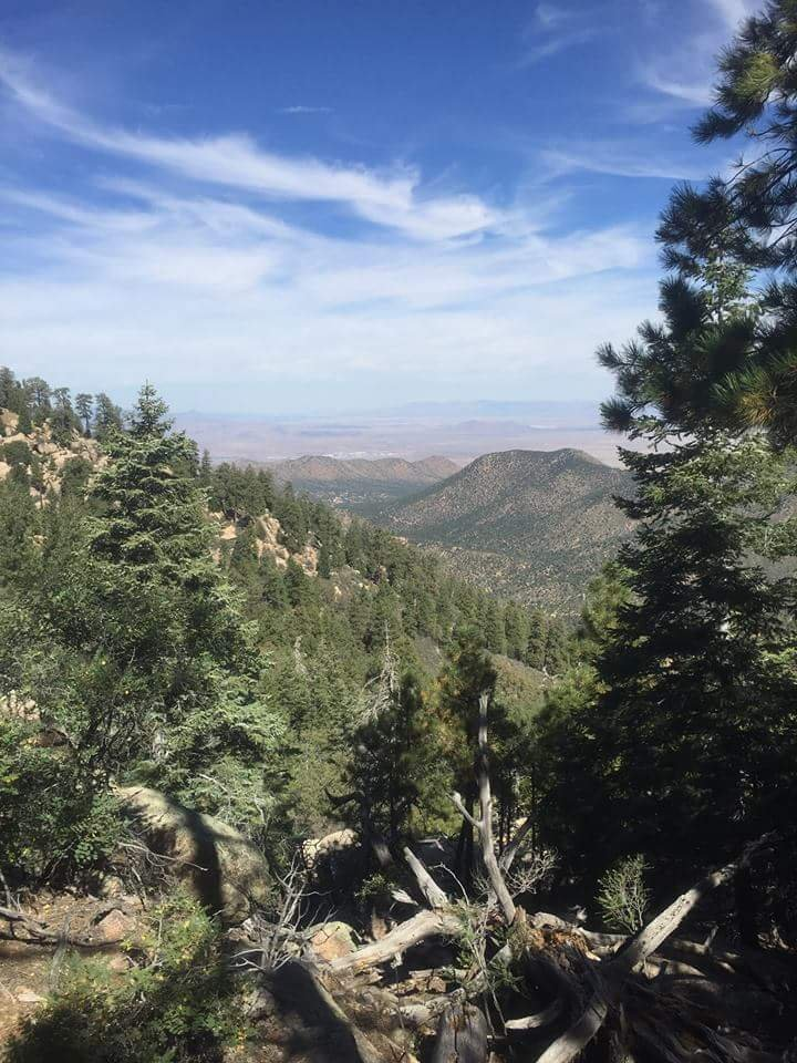 Hualapai Mountains Mohave County Park System